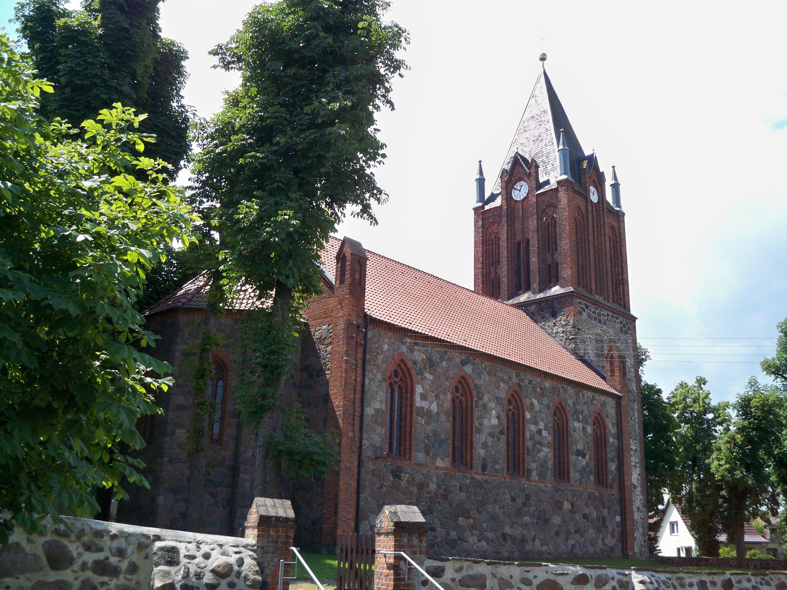 Immekath, Klötze, Saxony-Anhalt, village church